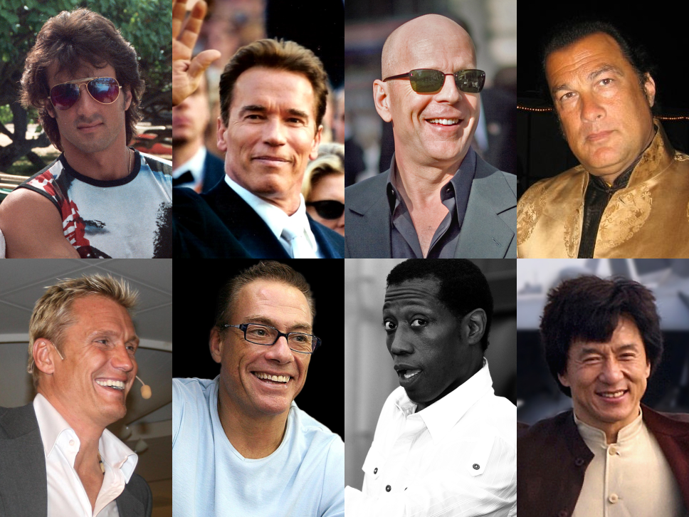 Collage of famous action heroes